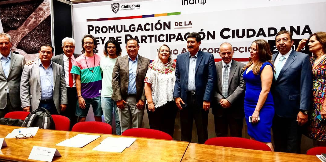 Promulgación de la Ley de Participación Ciudadana del Estado de Chihuahua el 21 de Junio del 2018.